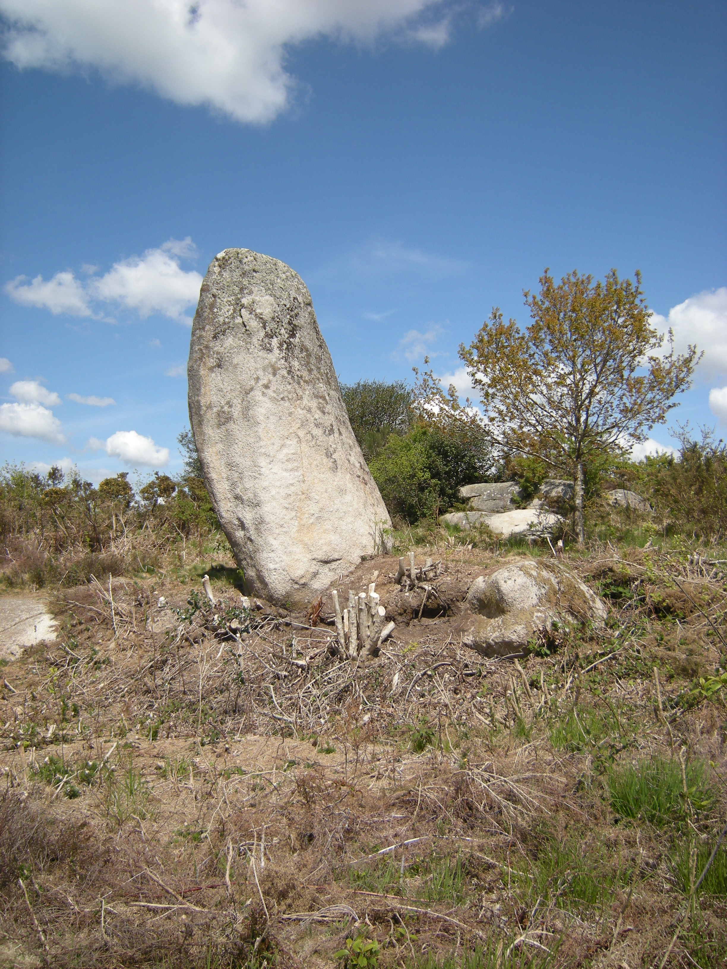 Menhir Quélénec, Locarn, Côtes-d'Armor, France